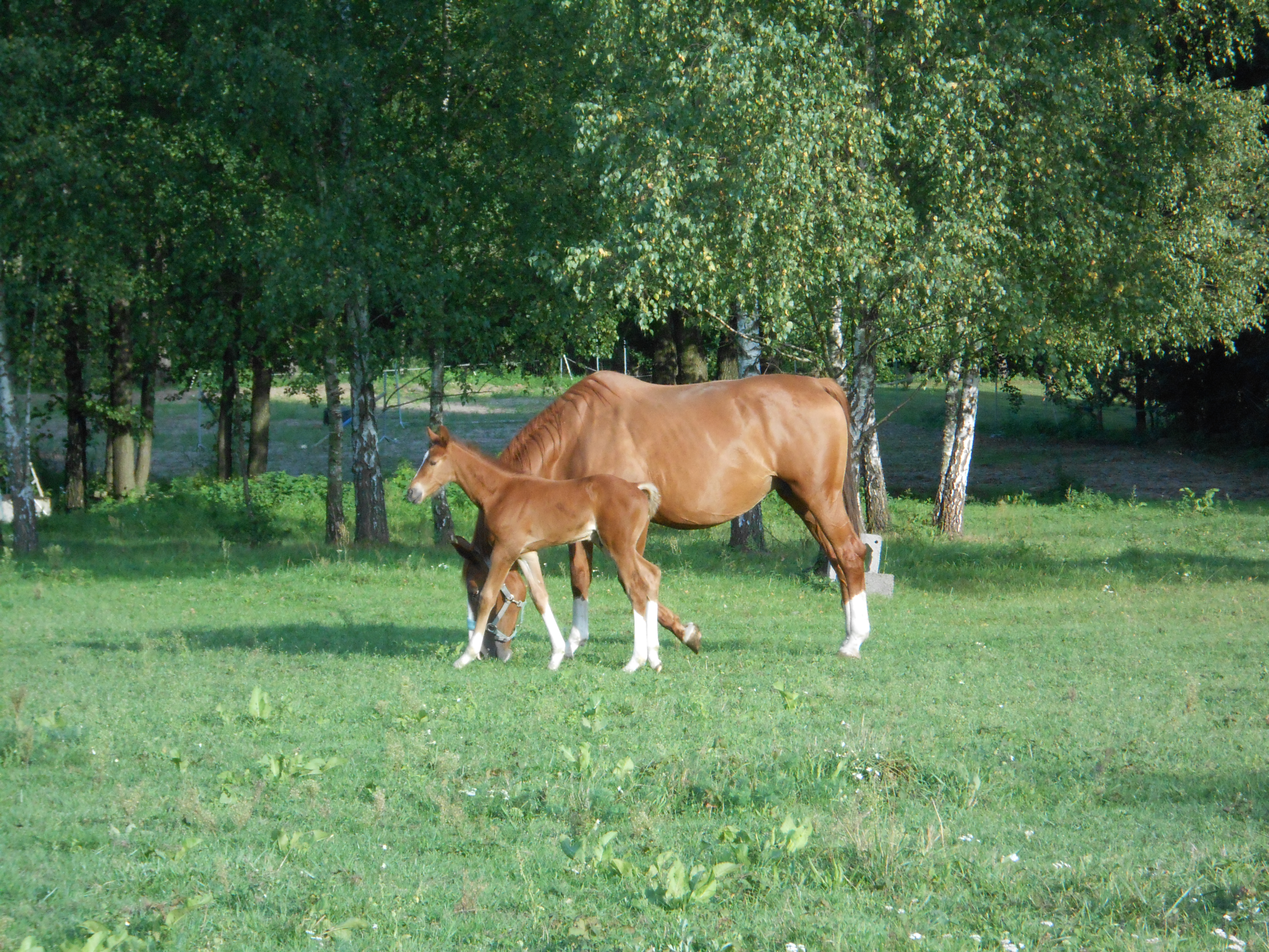 Mare and foal in poland